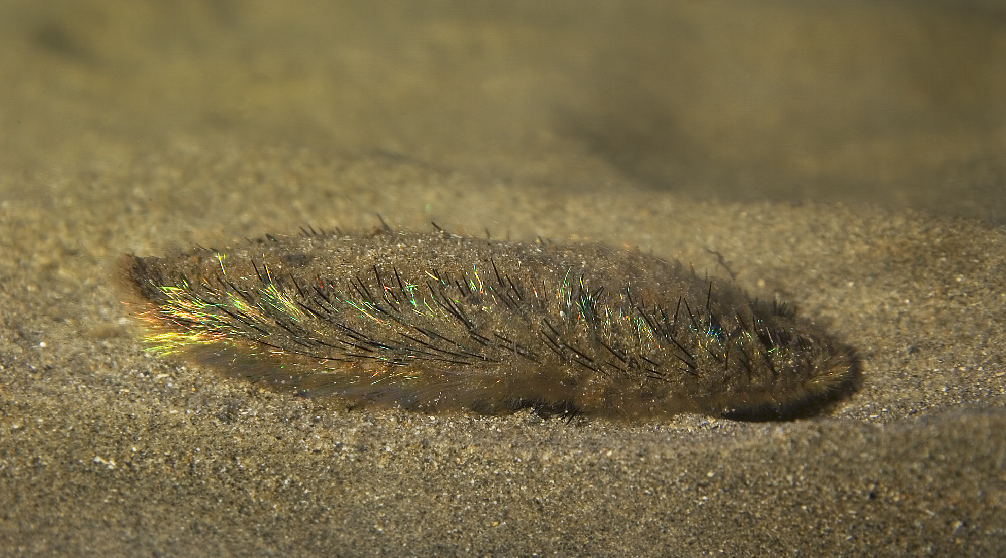 Aphrodita aculeata (Sea mouse), taken at the Marine Aquarium, Lyme Regis, Dorset, UK.